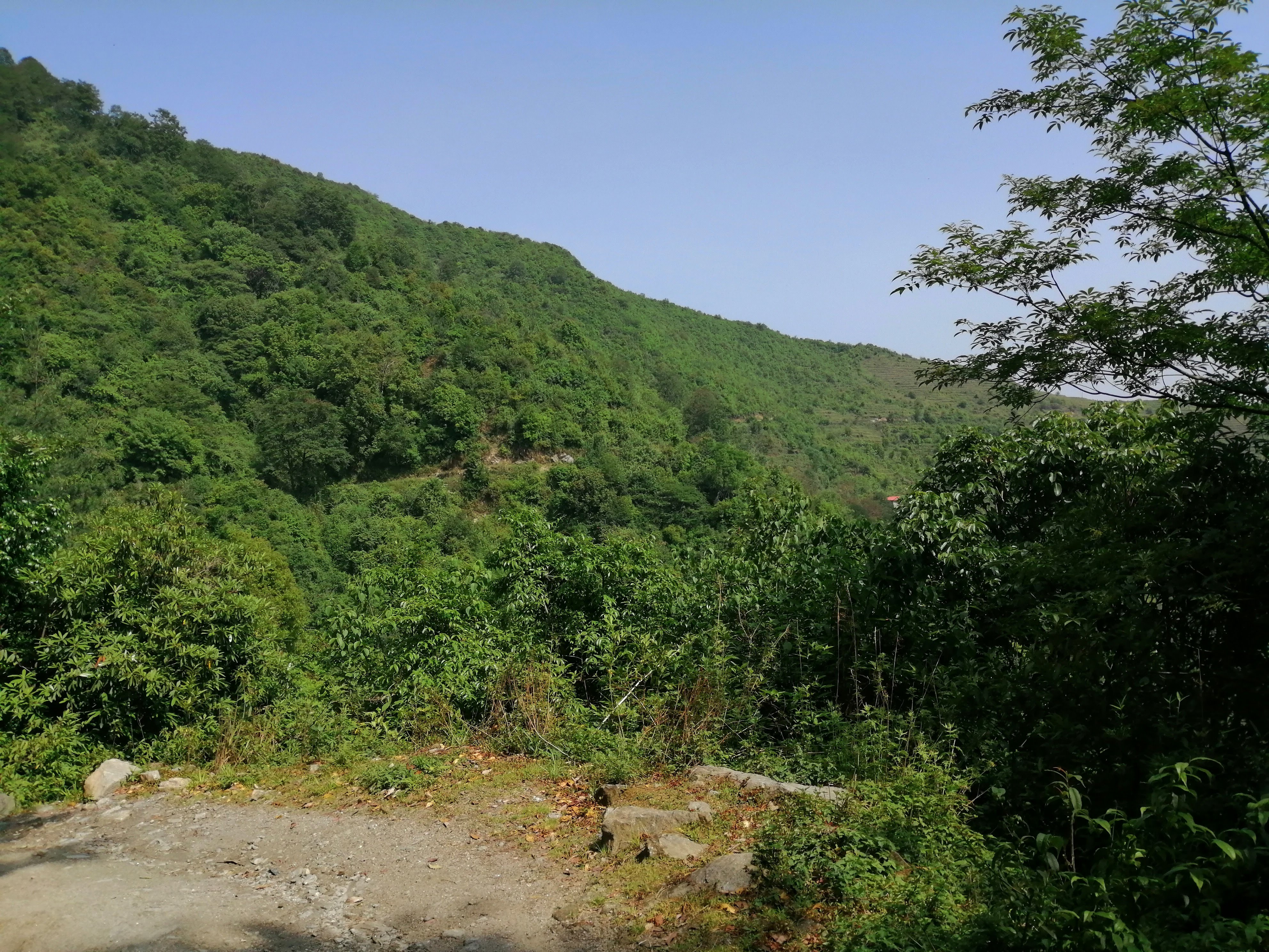 On the way to Surya chaur